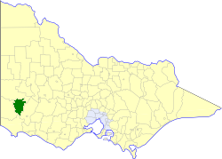 Location of the former Shire of Wannon within Victoria.